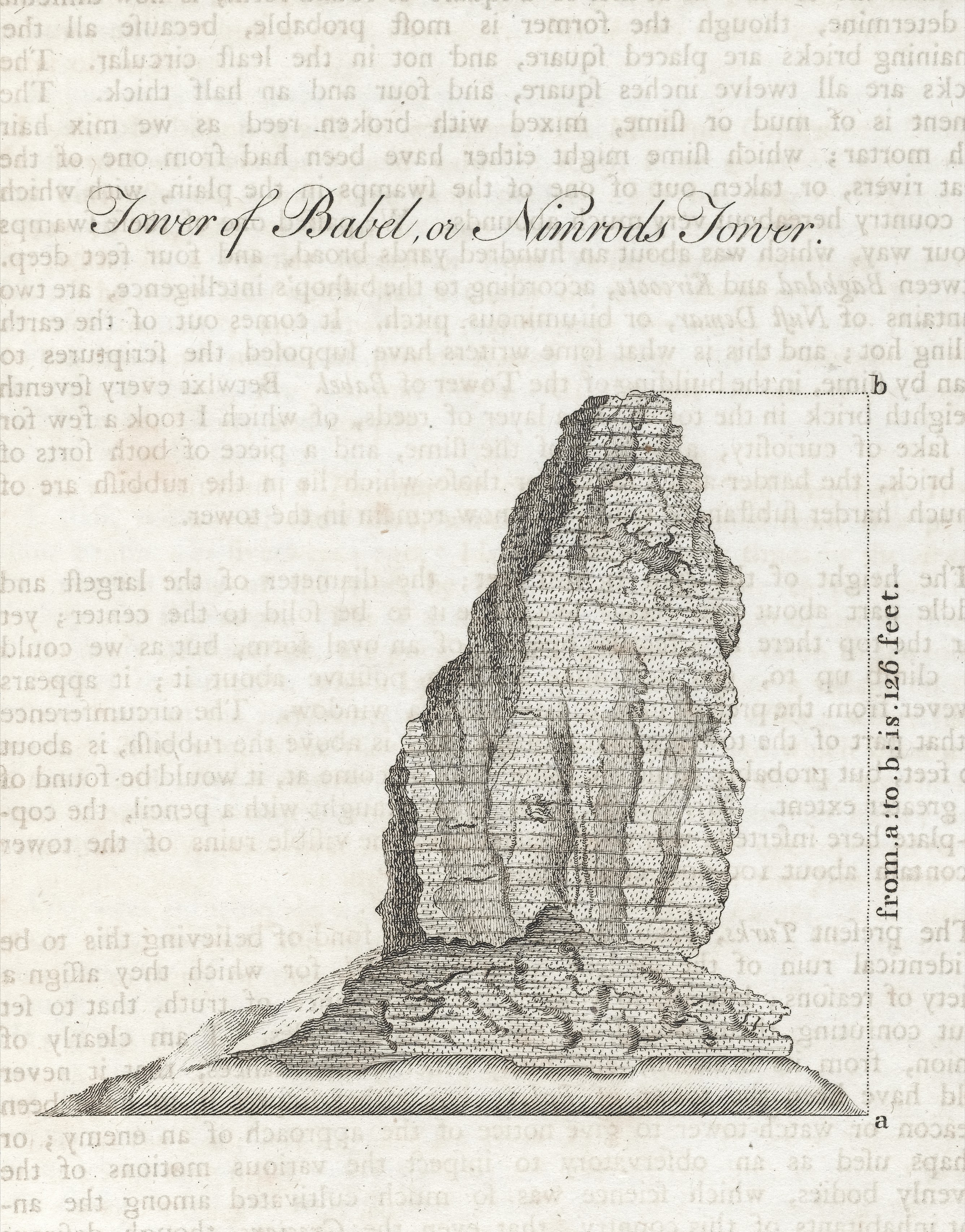 Printed drawing of the Tower of Babel, or Nimrods Tower. Rare Books Keywords: Botany; Plants, Medicinal